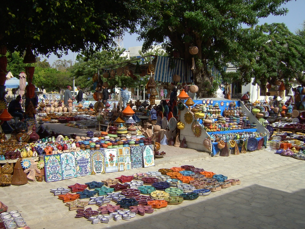 The souk (market) in Houmt Souk, Djerba.